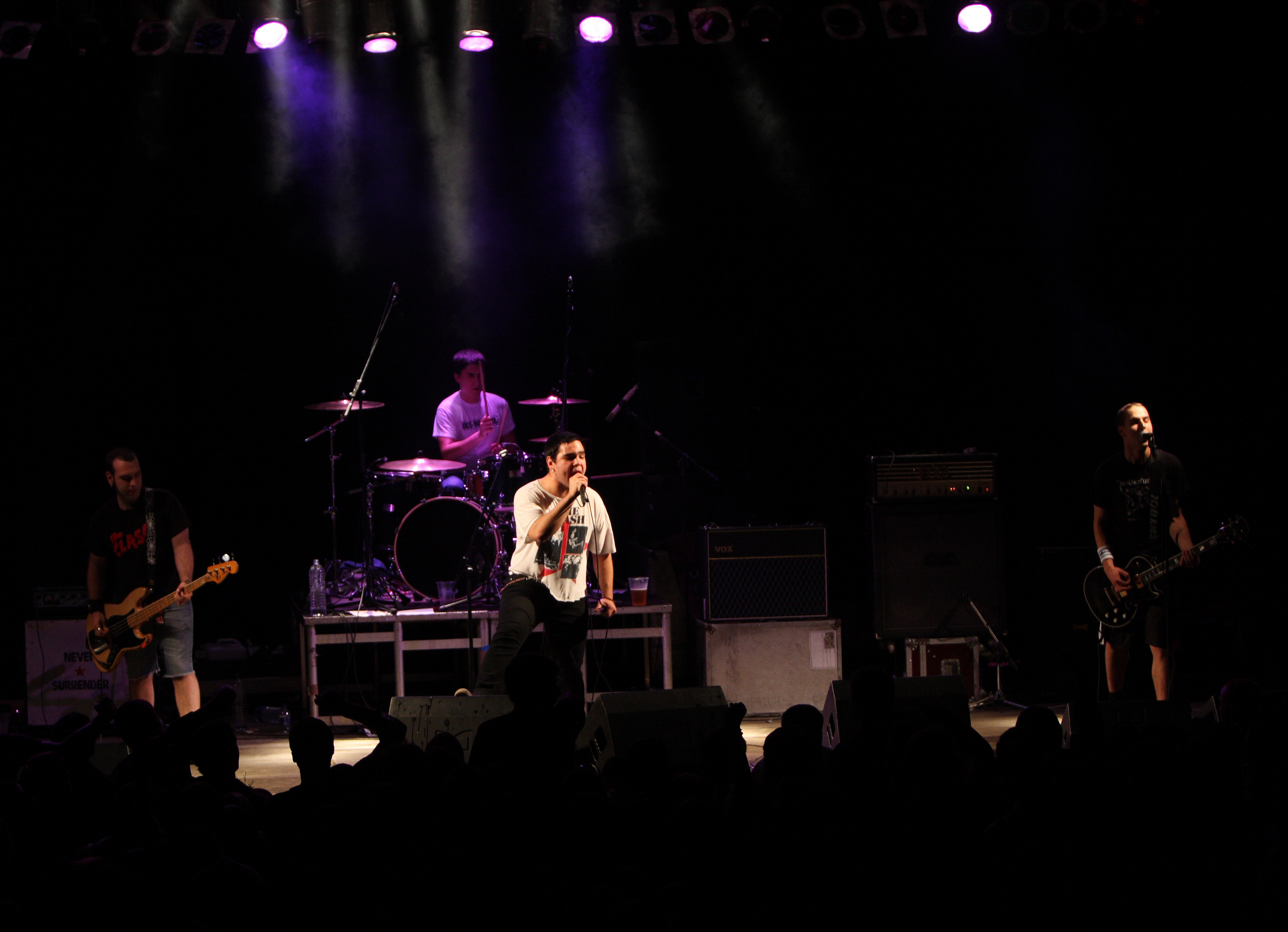 Never Surrender